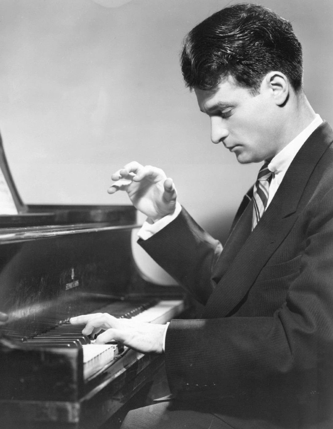 Photo of pianist William Kapell.